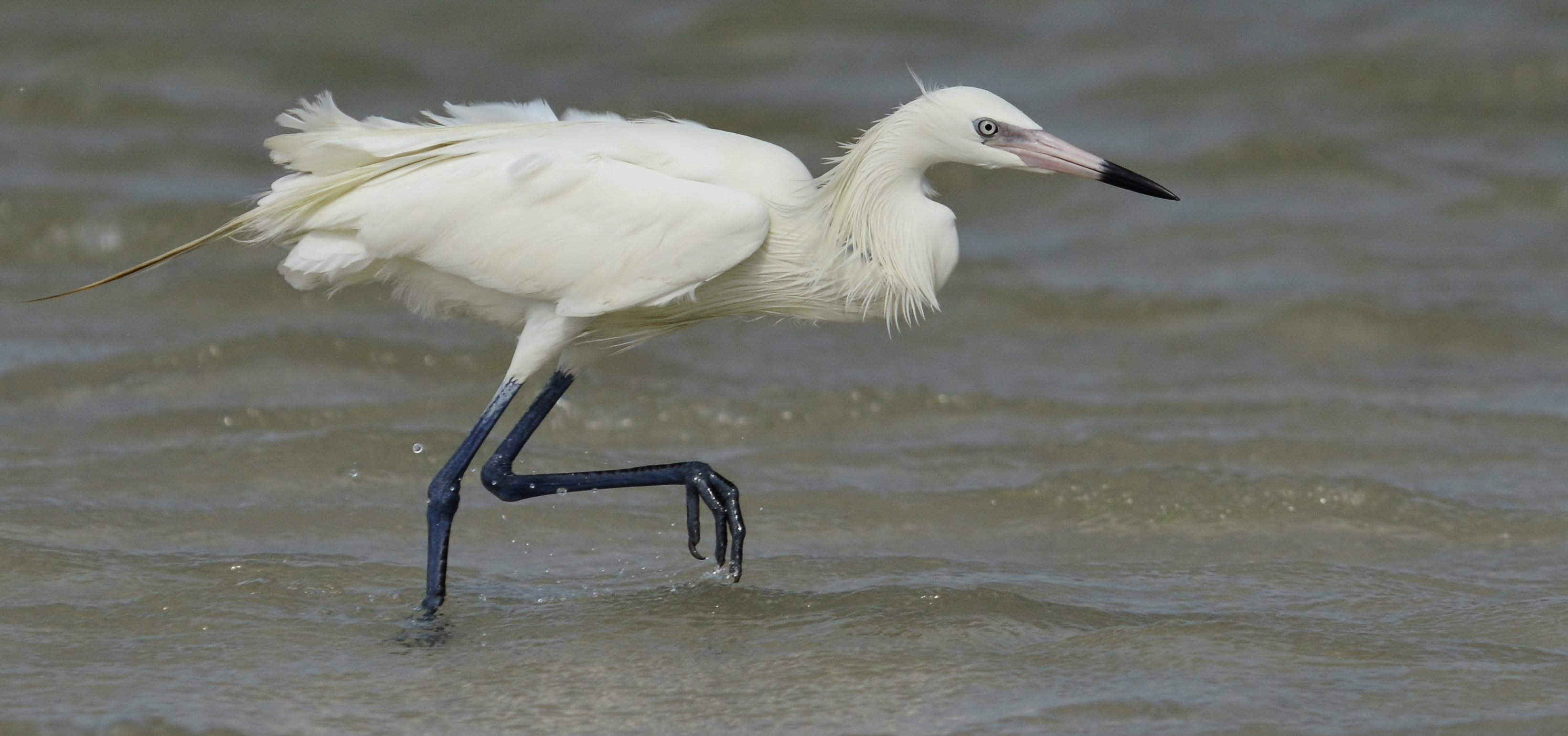 Fort DeSoto State Park, St. Petersburg, Florida, USA